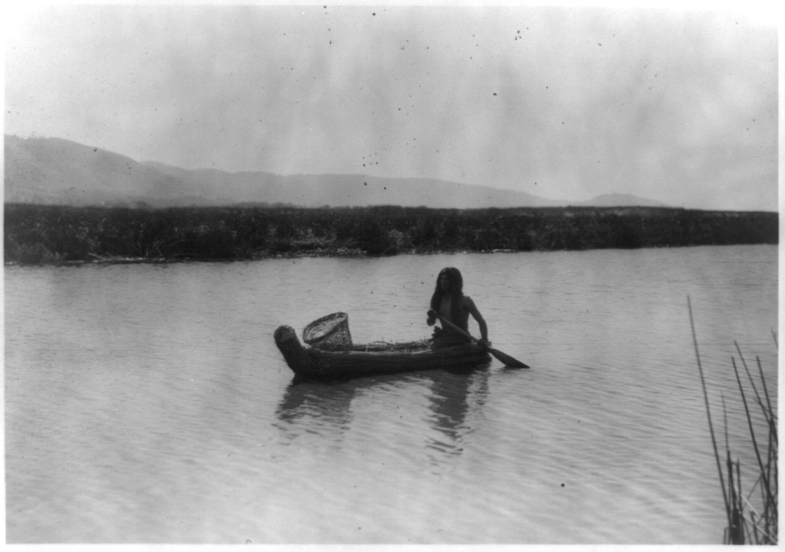 Indian in canoe made of rushes, Calif.